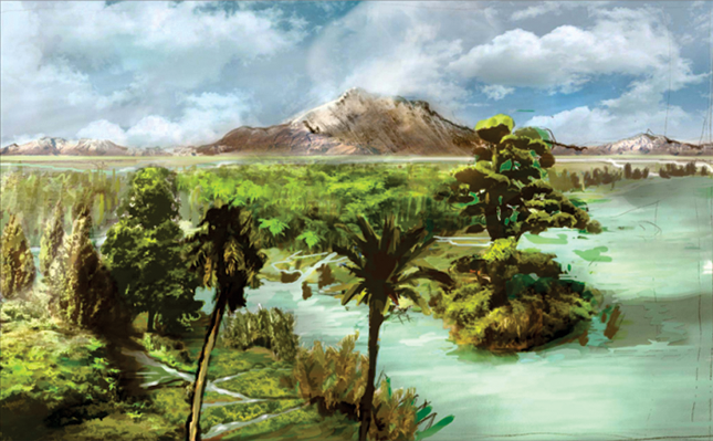 Ancient landscape across the Cretaceous/Paleogene time interval in central Patagonia. Main floristic types from the Danian: Podocarps, Cheirolepidiaceae, palms.